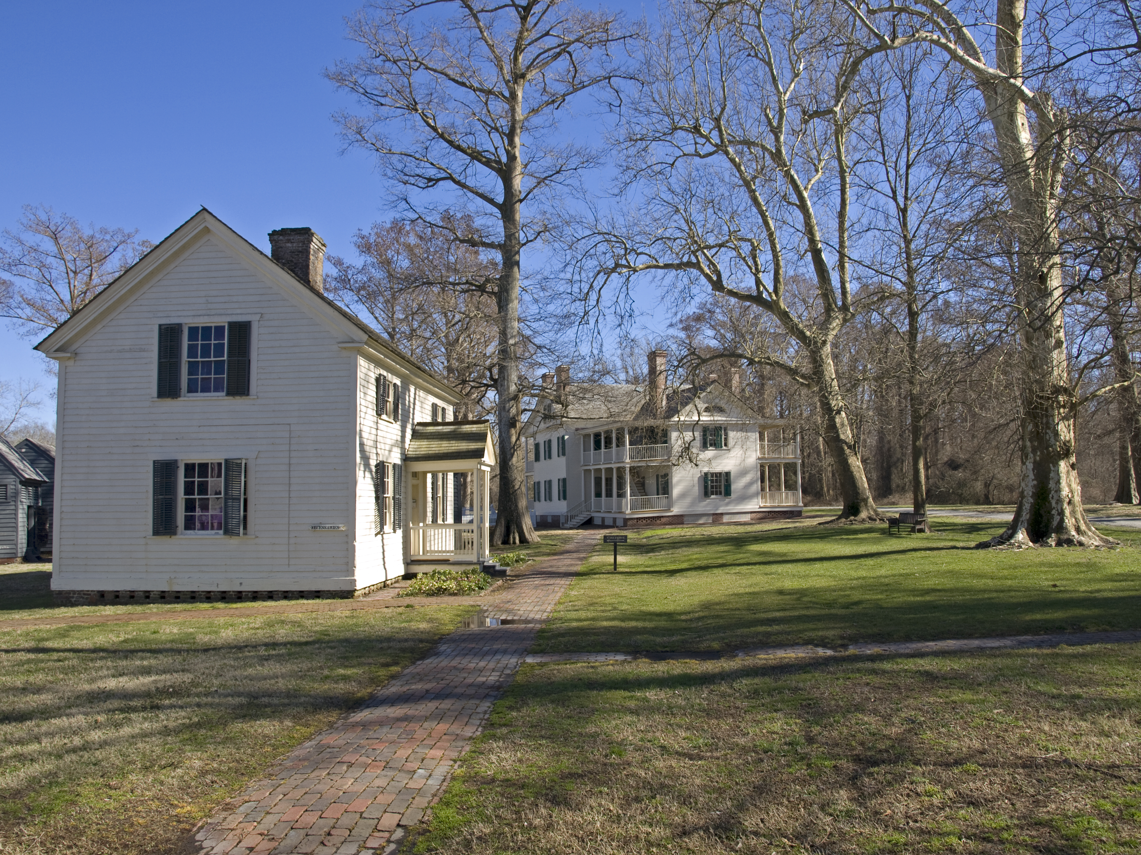 Main house (at the background) and headquarters (foreground), Somerset Place, North Carolina